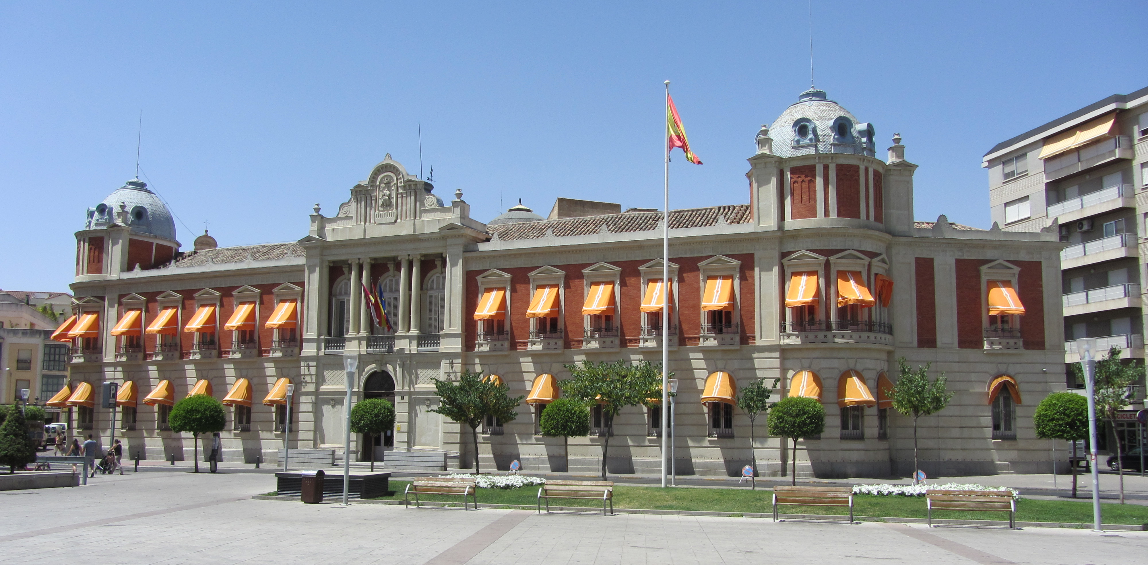 Diputación Provincial Palace in Ciudad Real (Spain).